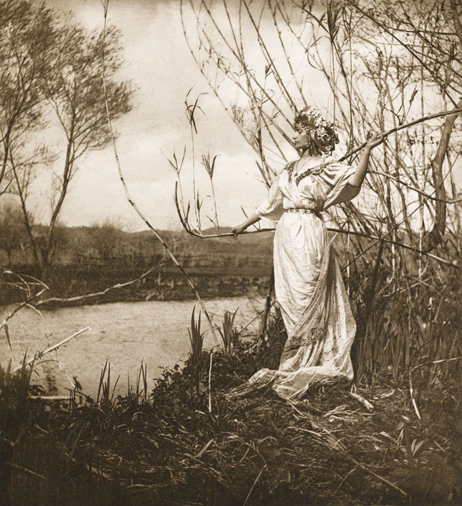 Paul Bergon Eine Königstochter [Die Kunst in der Photographie (Art Folio #5)] 1898 Photogravure-Chine-collé 18.8 x 15.1 cm Spencer Photographic Archive LL/16439 Heliographed (Plate) & Printed by: Meisenbach, Riffarth & Co. (Berlin)